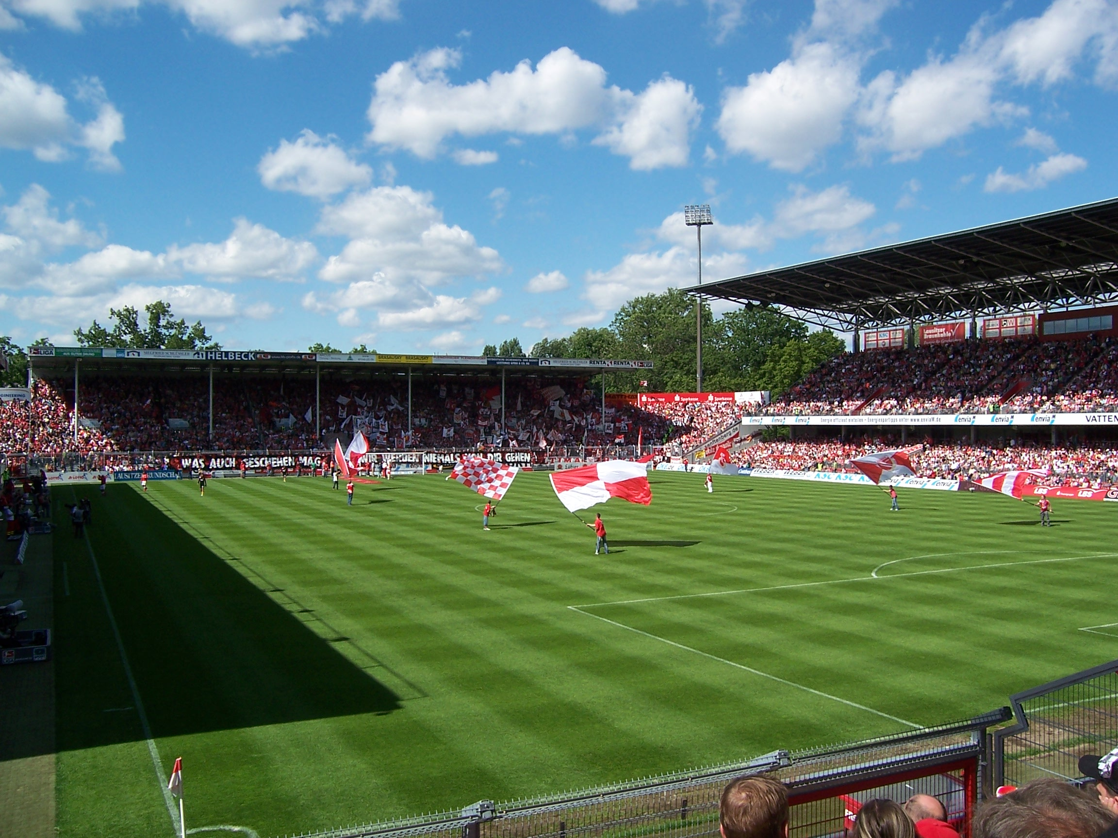 The Stadium of the german soccer team "Energie Cottbus".